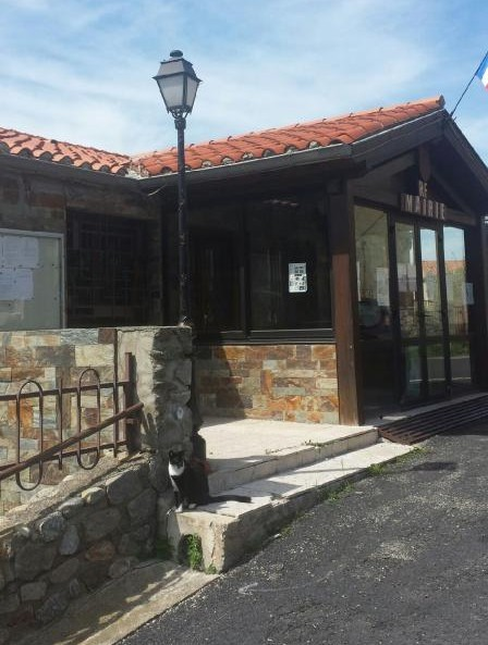 Town hall in Fillols